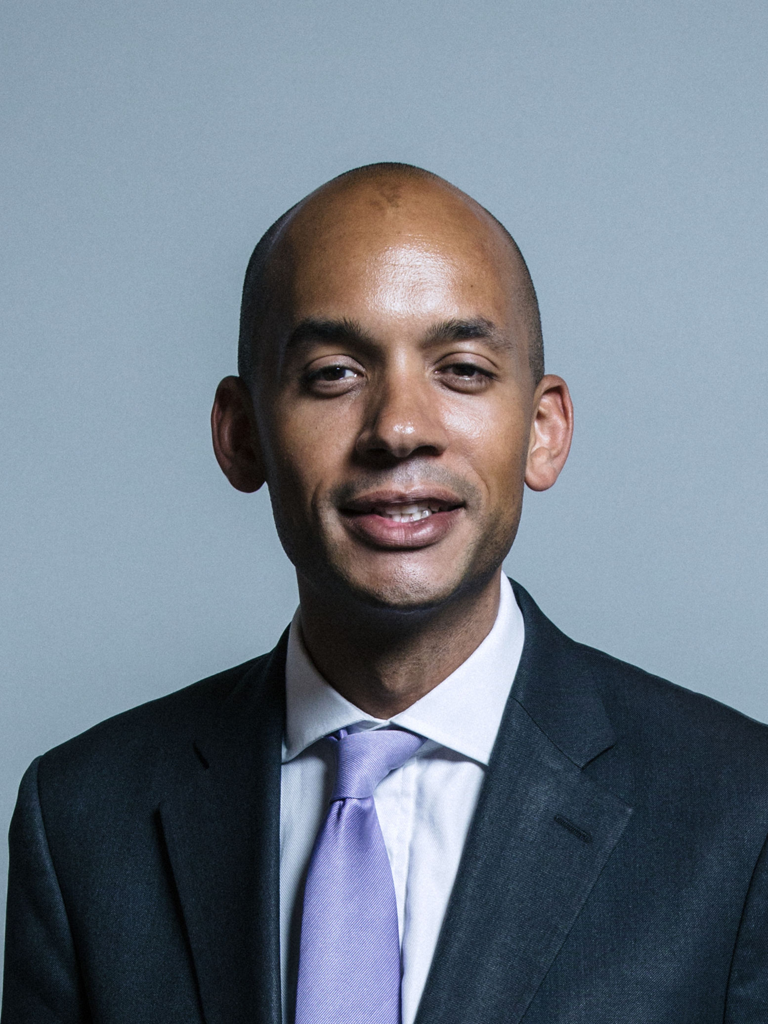 Official portrait of Chuka Umunna